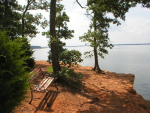 Picture of Grapevine Lake from the north shore. Picture from Corps of Engineer's Fort Worth District, Elm Fork Project trails page.